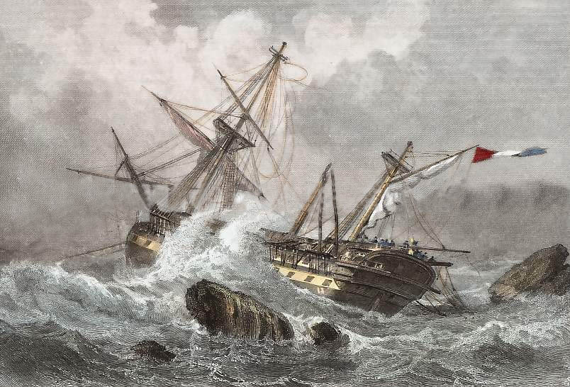 The Téméraire class ship of the line Superbe was wrecked at Paros, Greece on 15 December 1833